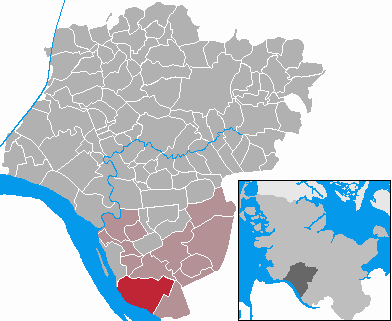 This map shows the area of the municipality Kollmar in the Kreis (district) Steinburg, Schleswig-Holstein, Germany.